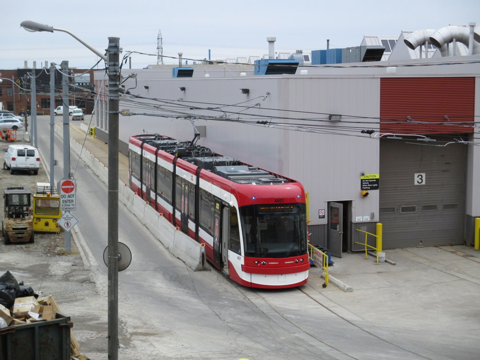 4401 beside the Harvey Shops at the Hillcrest Complex showing some roof equipment.